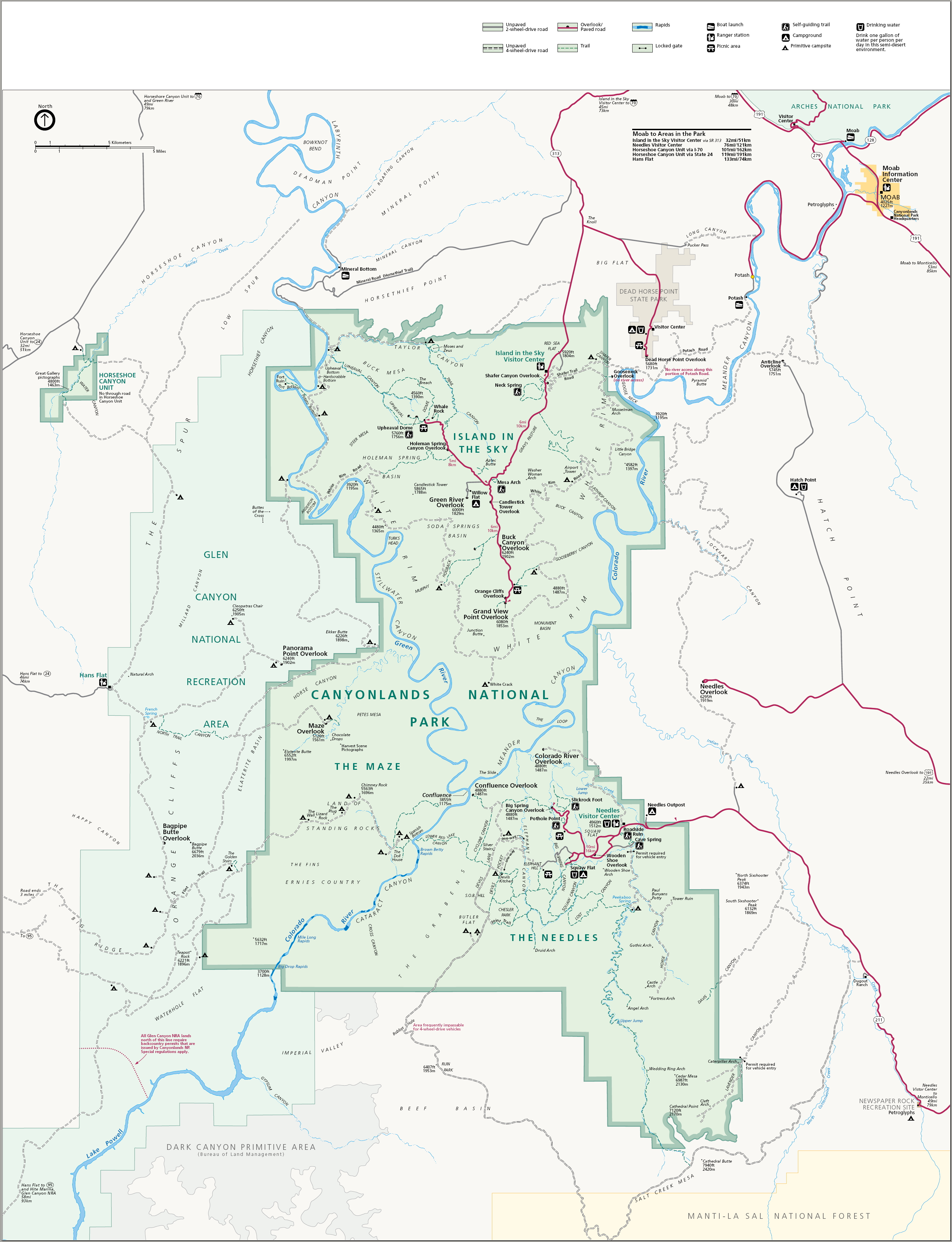 Map of Canyonlands National Park